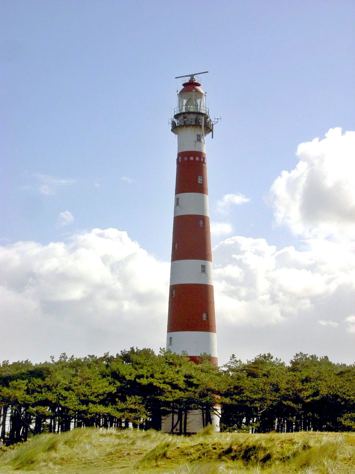 Lighthouse Ameland , Netherlands, museum